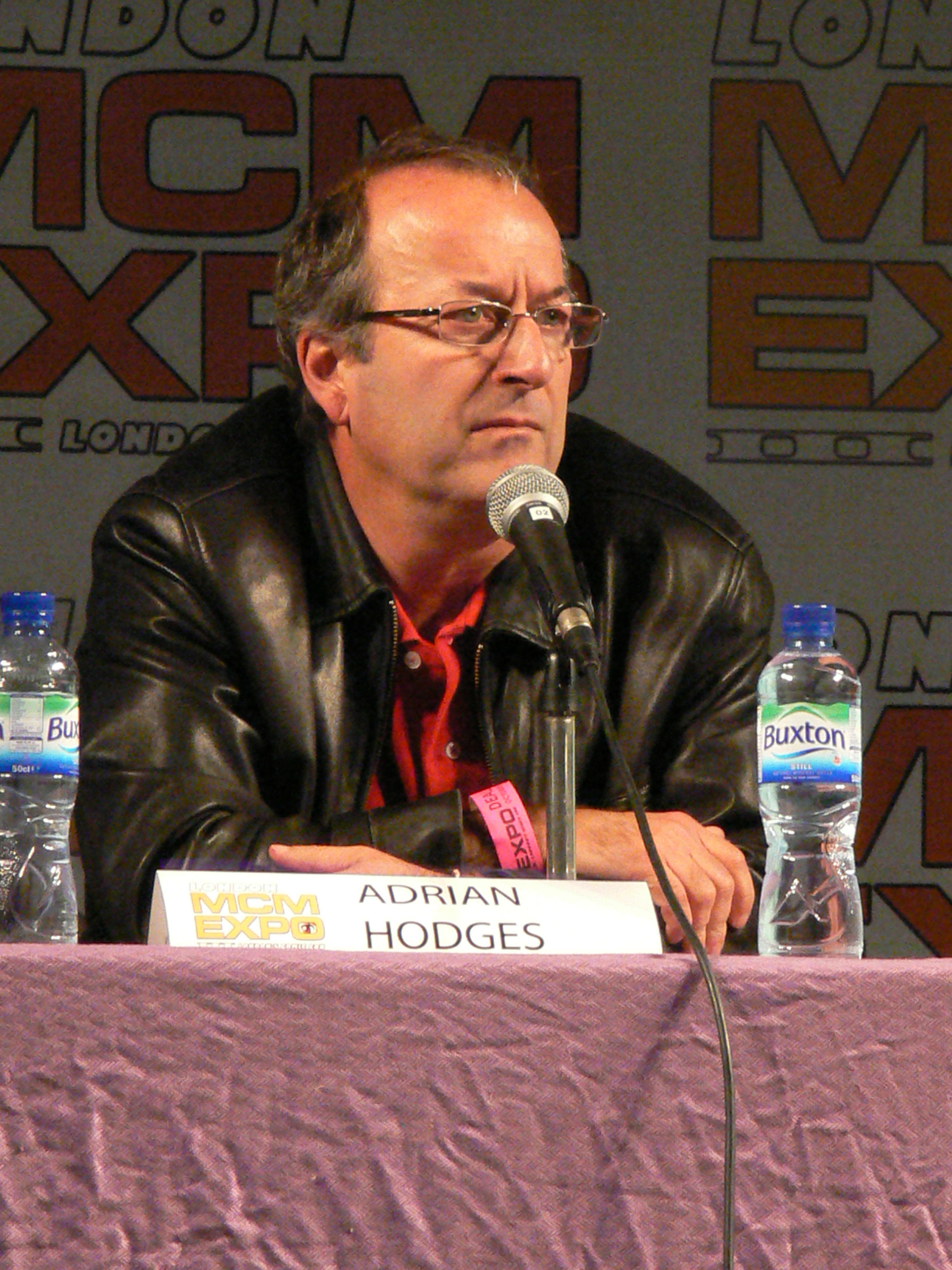 Screenwriter Adrian Hodges at the London Expo on 31 October 2010.